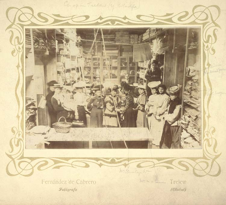 A co-operative society (Chubut Mercantile Company) founded by the Welsh Patagonian settlers in the 1880s.